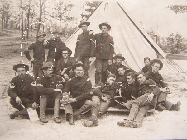 Members of teh 2nd Arkansas Infantry, probably during the Mexican Boarder Expedition, in 1916.